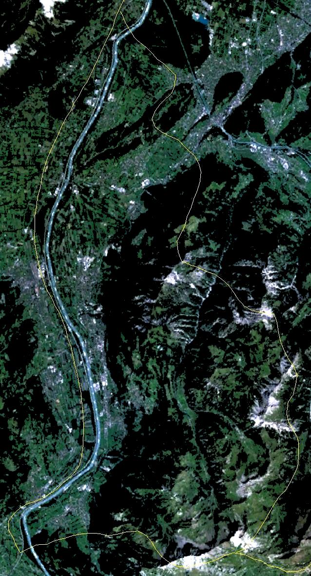 Satellite image of Liechtenstein on Landsat 7 with approximate borders.